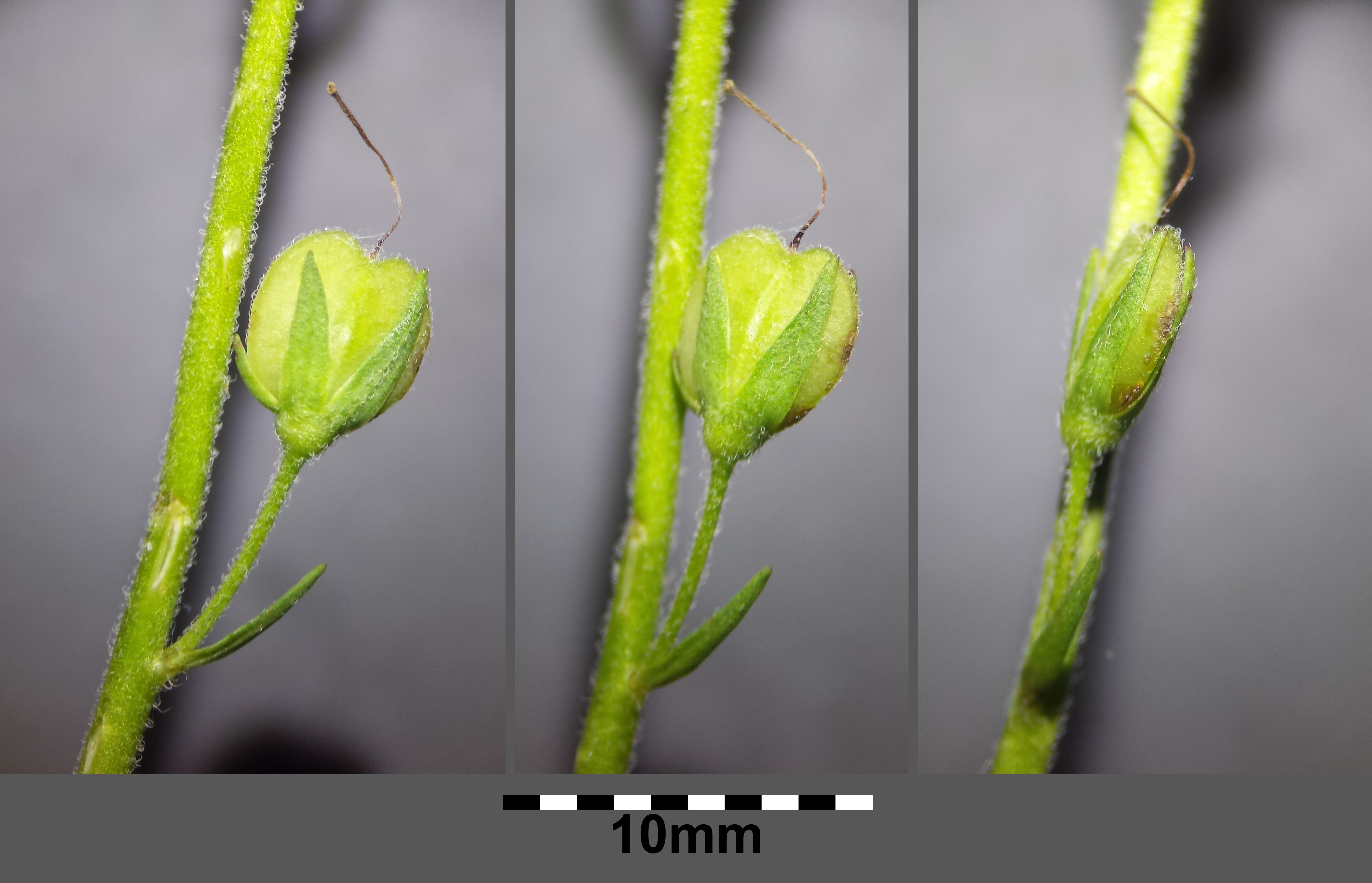 Fruit Taxonym: Veronica teucrium ss Fischer et al. EfÖLS 2008 ISBN 978-3-85474-187-9 Location: Steinberg near Niederhollabrunn, district Korneuburg, Lower Austria - ca. 375 m a.s.l. Habitat: semi-dry grassland